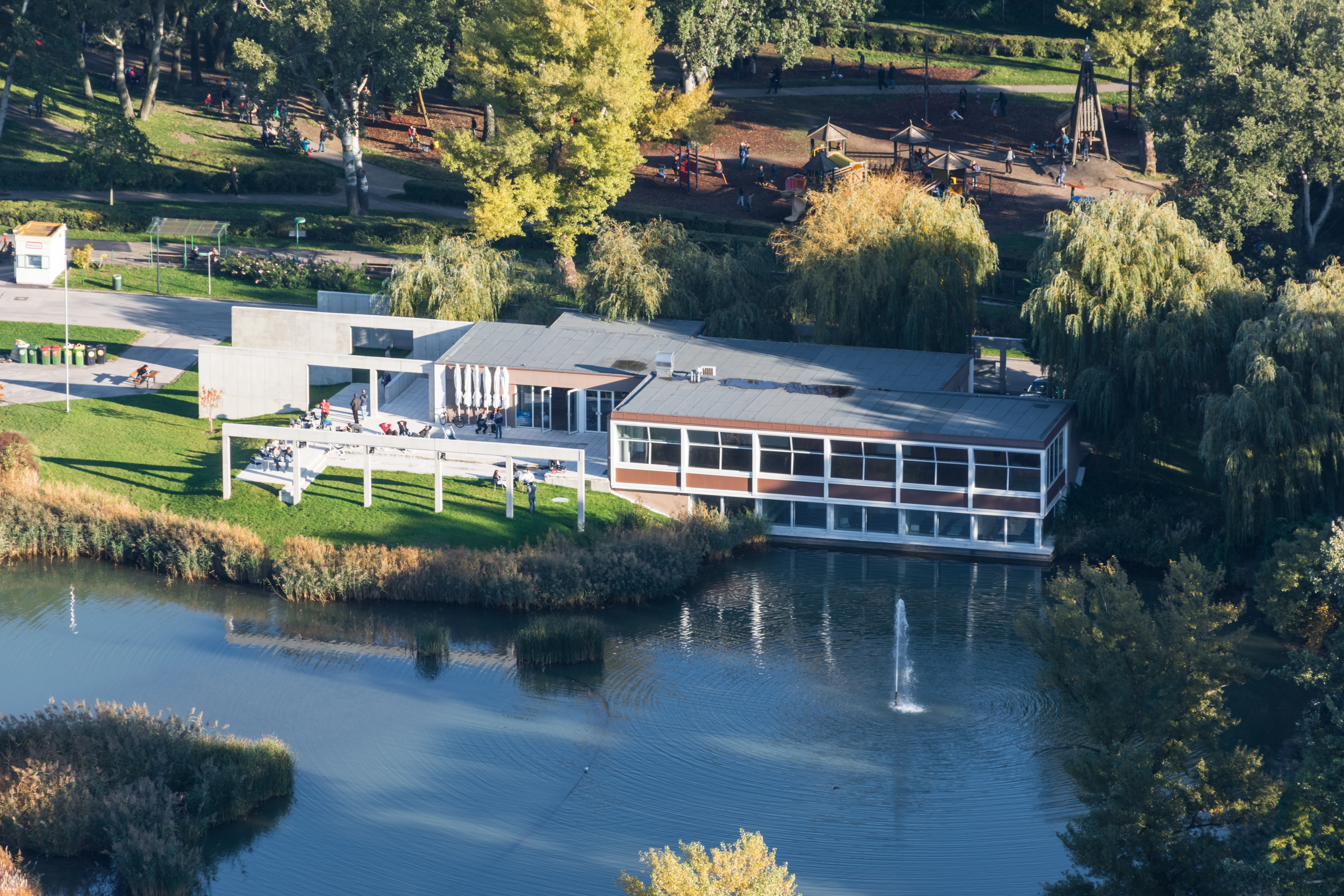 Former lake restaurant at Irissee, Korean Cultural Centre, Donaupark, Vienna